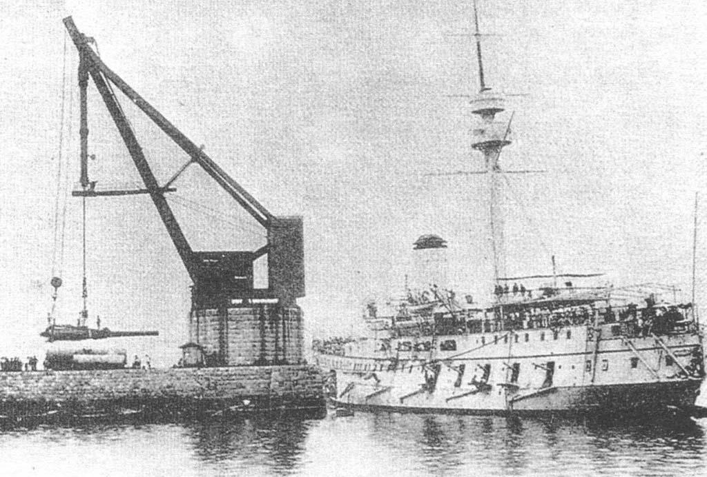 Picture of Japanese cruiser Hashidate 1893.01.09